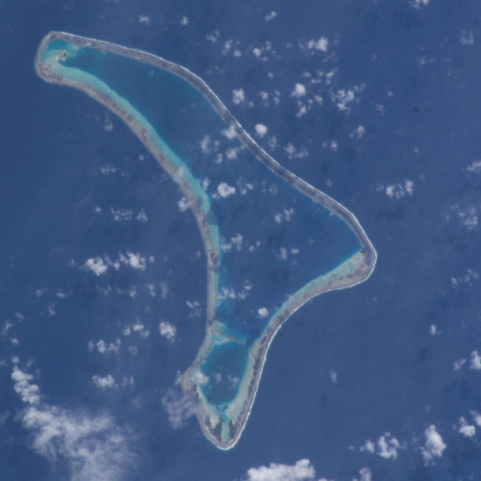 NASA astronaut image of Ravahere Atoll (Tuamotu Archipelago, French Polynesia) in the Pacific Ocean